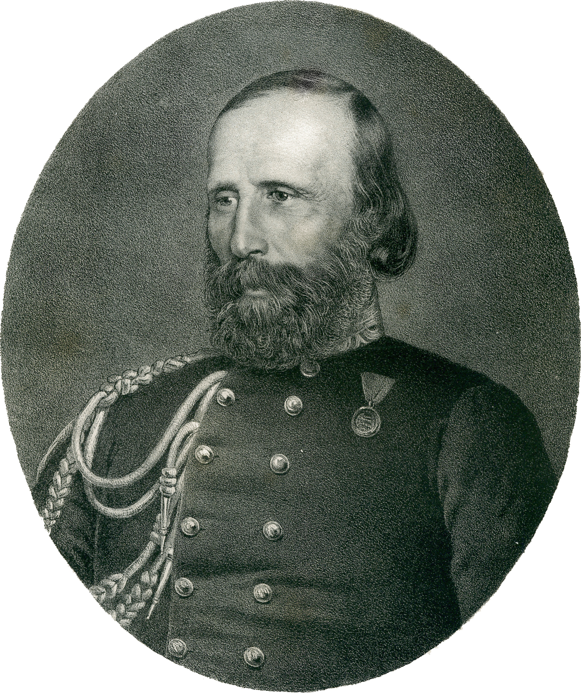 Giuseppe Garibaldi in 1860